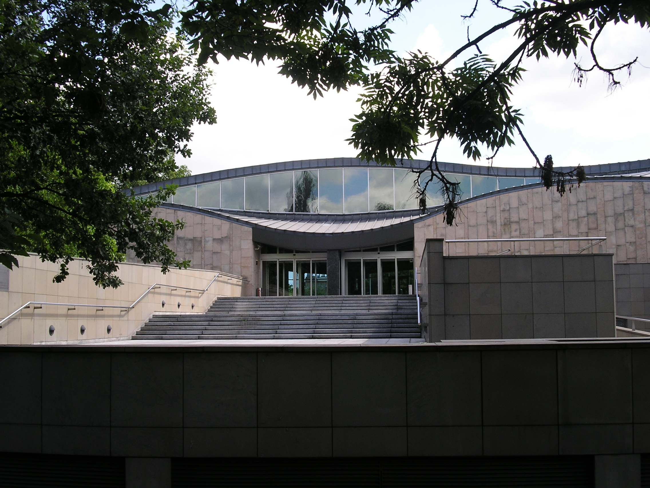 Centre of Japanese Art and Technology, Cracow (main entrance)